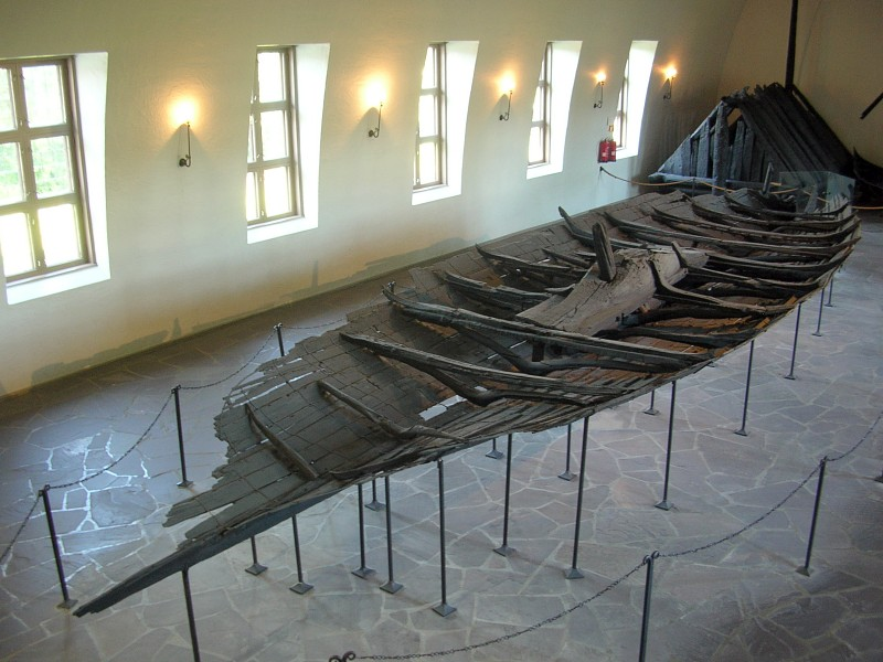 Exhibition in Viking Ship Museum in Oslo